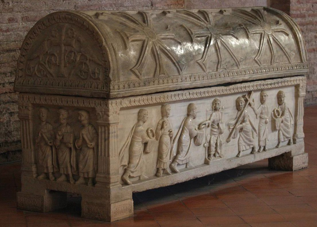 Sarcophagus in Sant'Apollinare in Classe. Ca. 1900. Today.